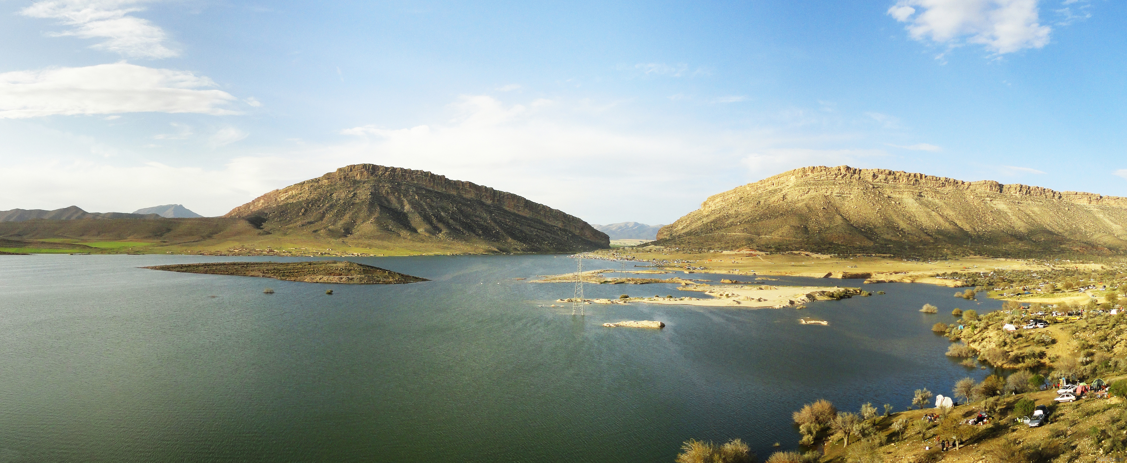 Tangab Dam, Firuzabad, Fars, Iran.